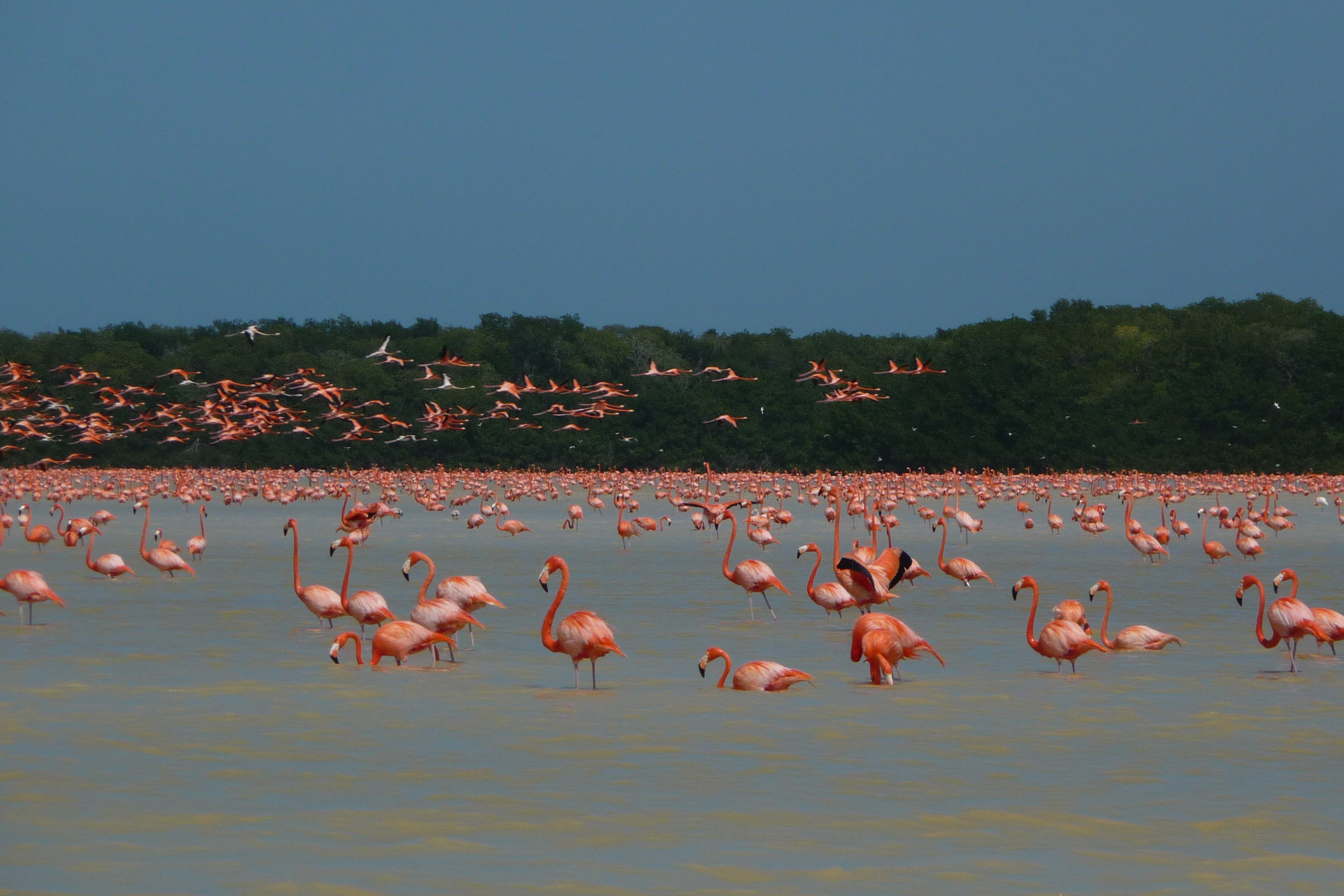 American Flamingo Phoenicopterus ruber, Celestún National Park, Yucatán, Mexico